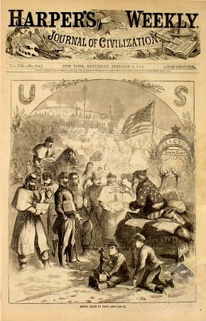 Thomas Nast immortalized Santa Claus with an illustration for the January 3, 1863 issue of Harper's Weekly The first Santa Claus appeared as a small part of a large illustration titled "A Christmas Furlough" in which Nast set aside his regular news and political coverage to do a Santa Claus drawing. This Santa was a man dressed up handing out gifts to Union soldiers. Copyright note: the creator of this work died in 1902.